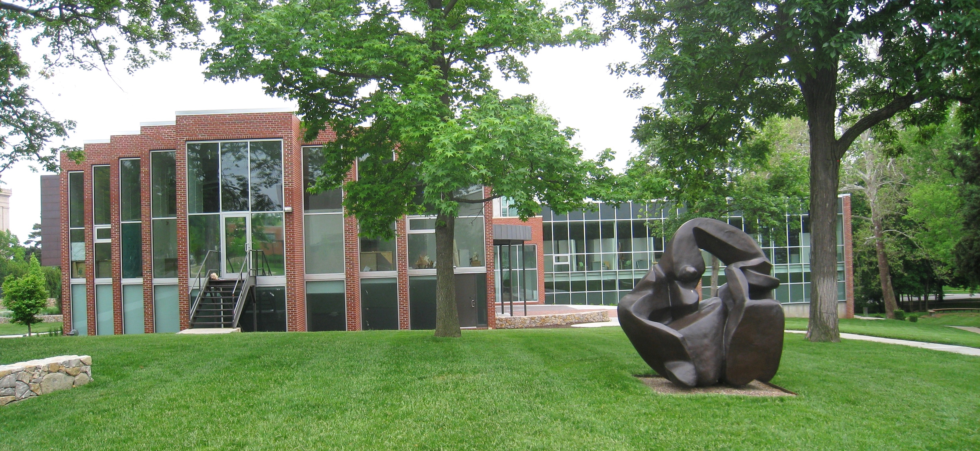 Lawn view, Kansas City Art Institute, Kansas City, Missouri, USA.